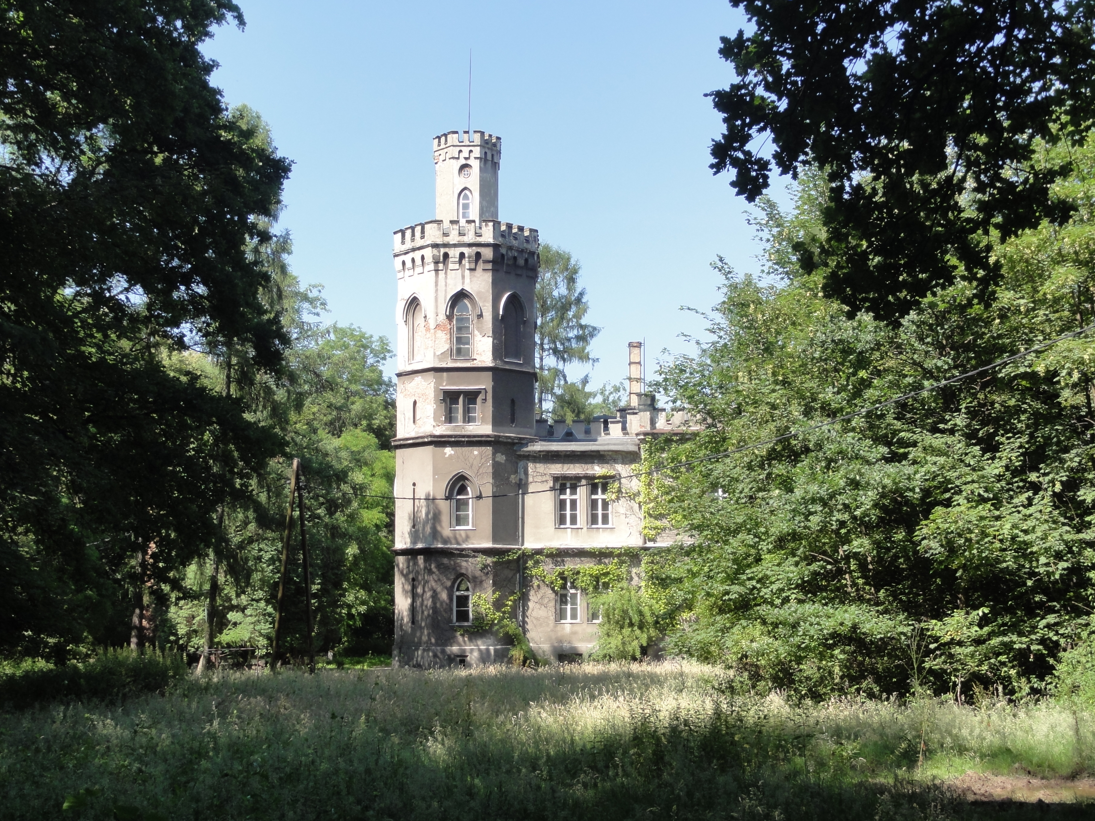 The palace in Bulowice